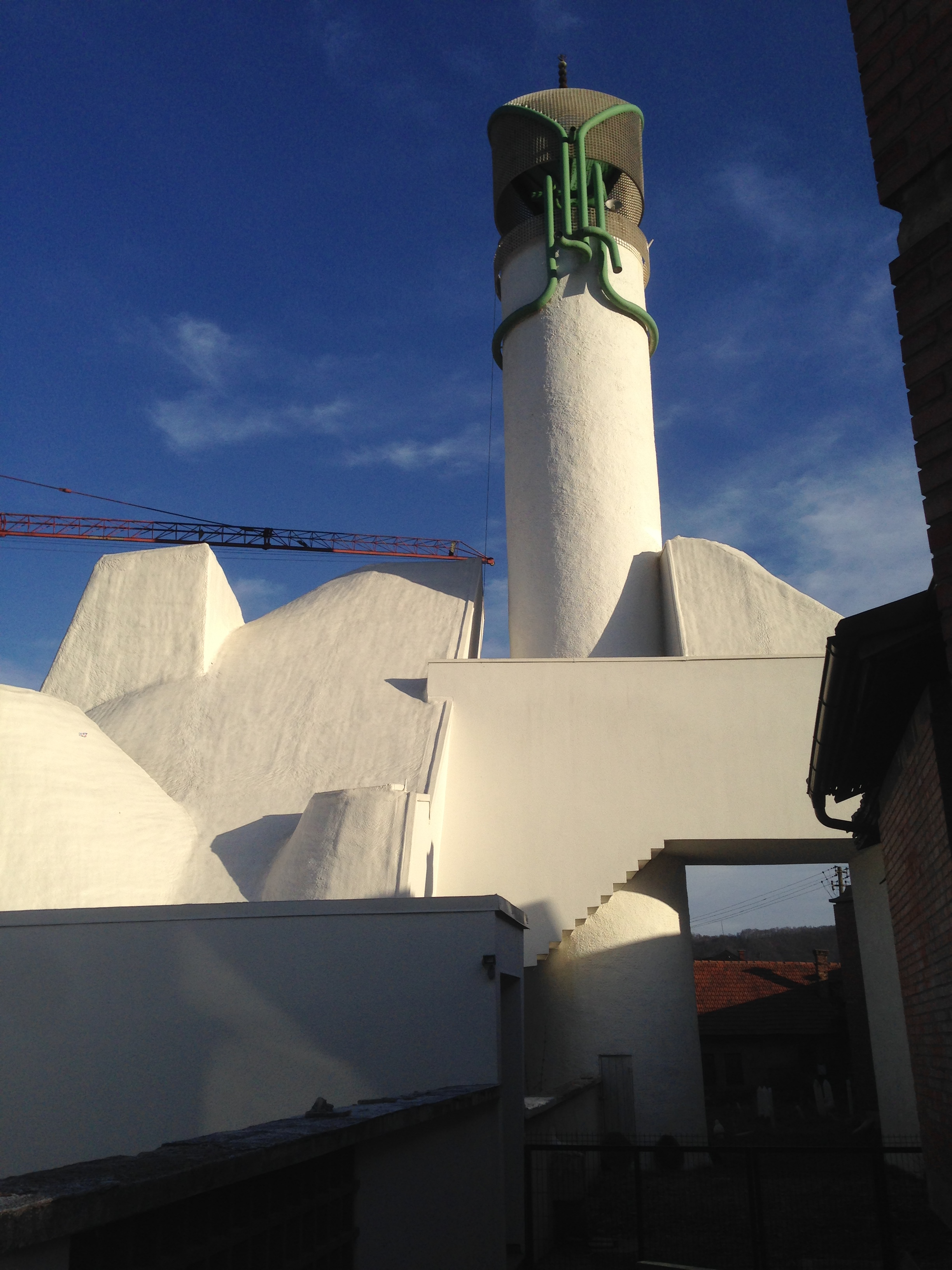 Šerefudin's White Mosque